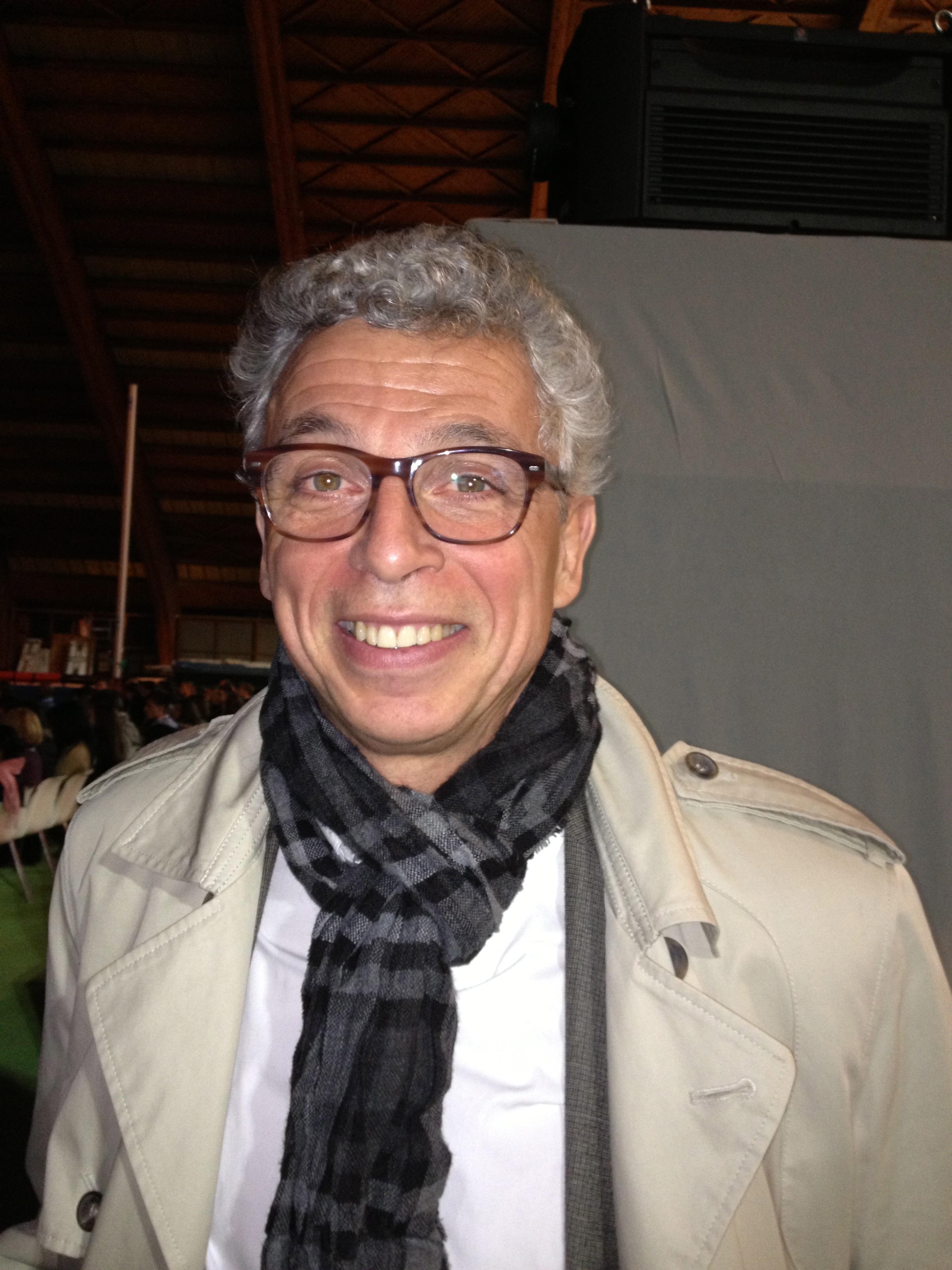 French fencer (foil olympic champion in 1992) in november 2012